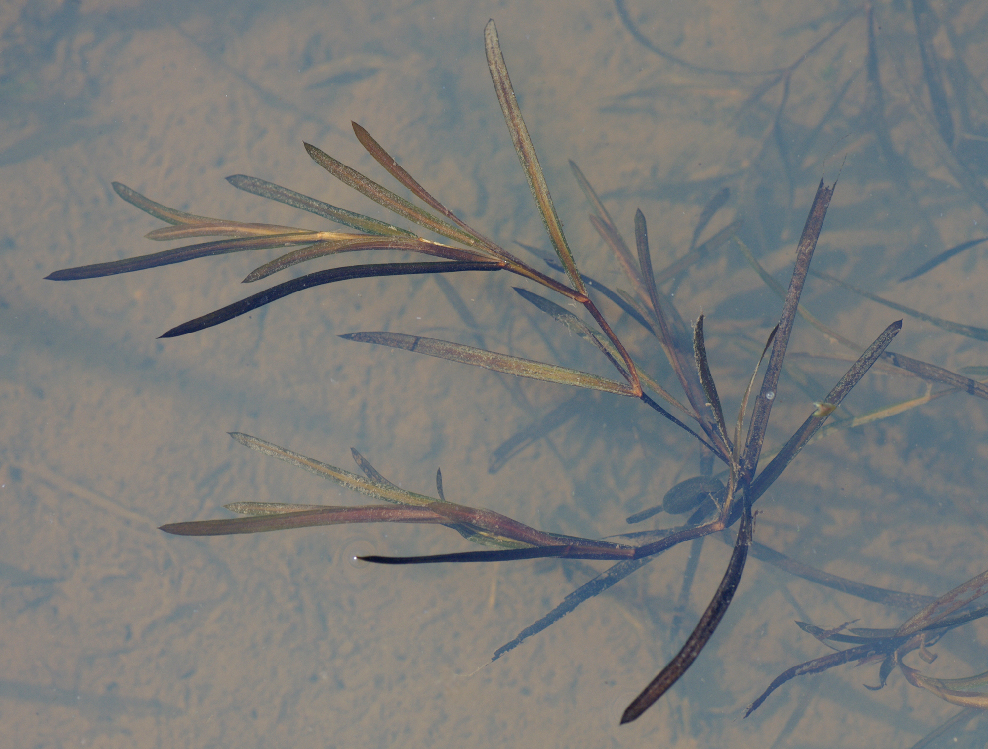 Submerged Sharp-leaved Pondweed (Potamogeton acutifolius) in a natural habitat, a weedy pond. View ~vertically from above through the surface of the water, which was about 40 cm deep at this point.